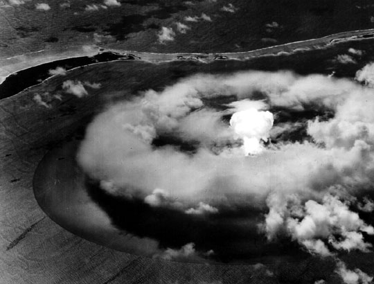 Crossroads Able nuclear test.